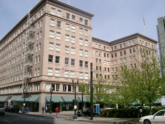 The Pittock Block in Portland, Oregon. Taken by myself.